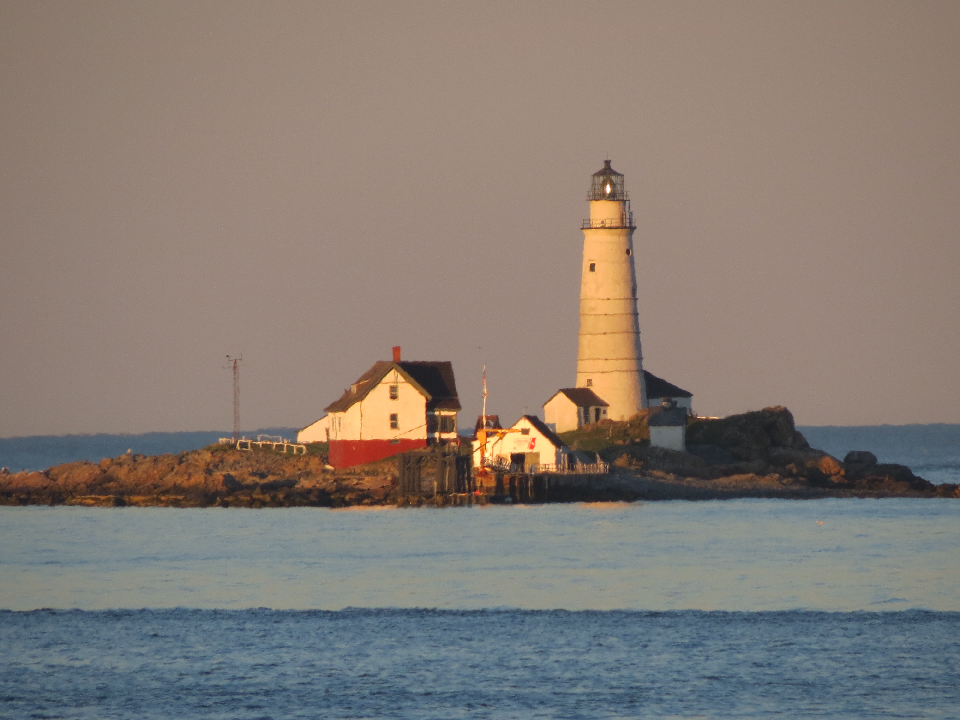 Boston Light in the Evening